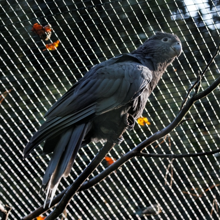 Greater Vasa Parrot in an aviary.